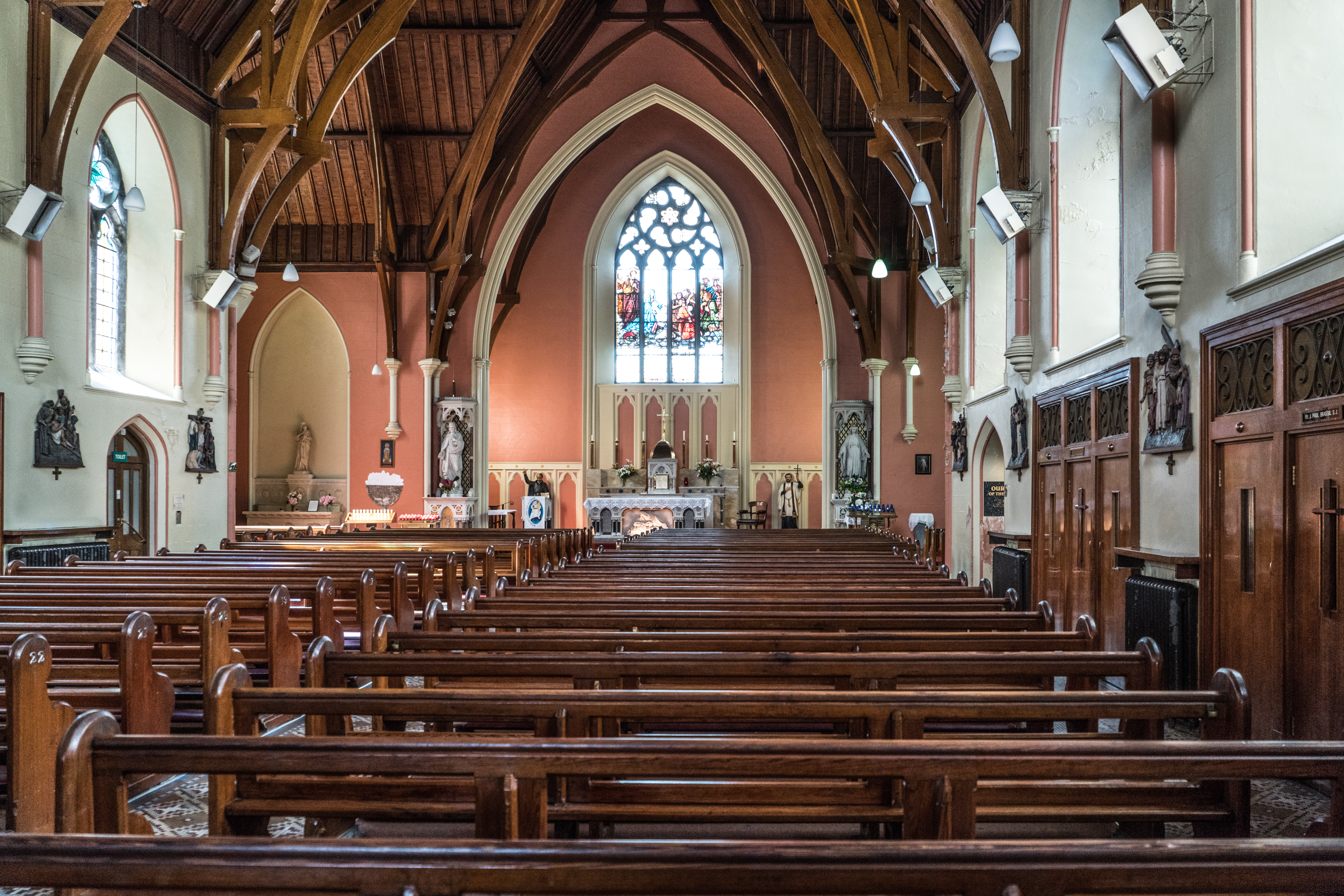 Nave of the Jesuit church dedicated to St Ignatius in Galway.